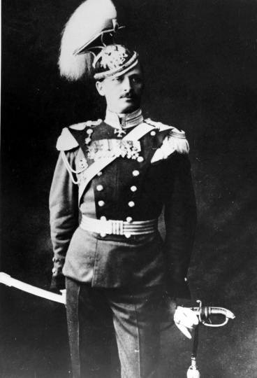 Colonel Mannerheim in Russian army uniform (Commander of 13th Vladimirsky uhlan regiment, 1909-1910).